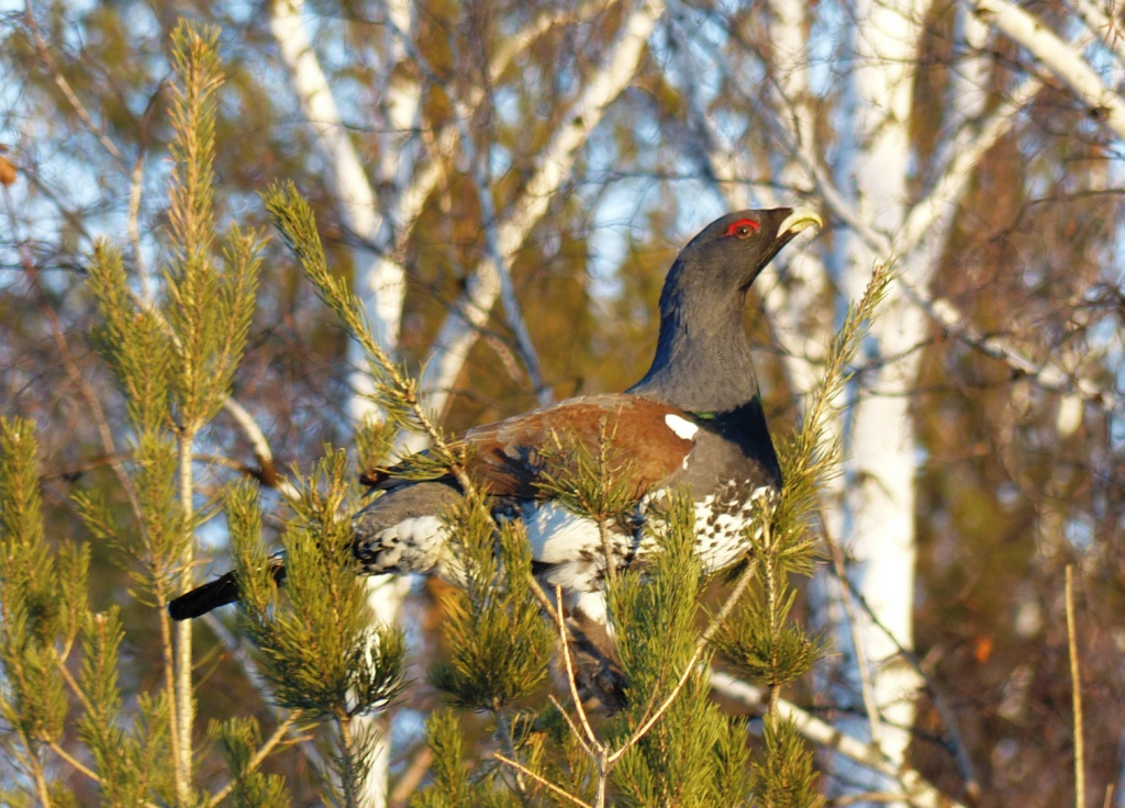 This photograph captures a representative squad Galliformes - capercaillie ordinary. This specimen was spotted at feeding time (as it is known, grouse eat the needles of young pine trees) in the Southern Urals.